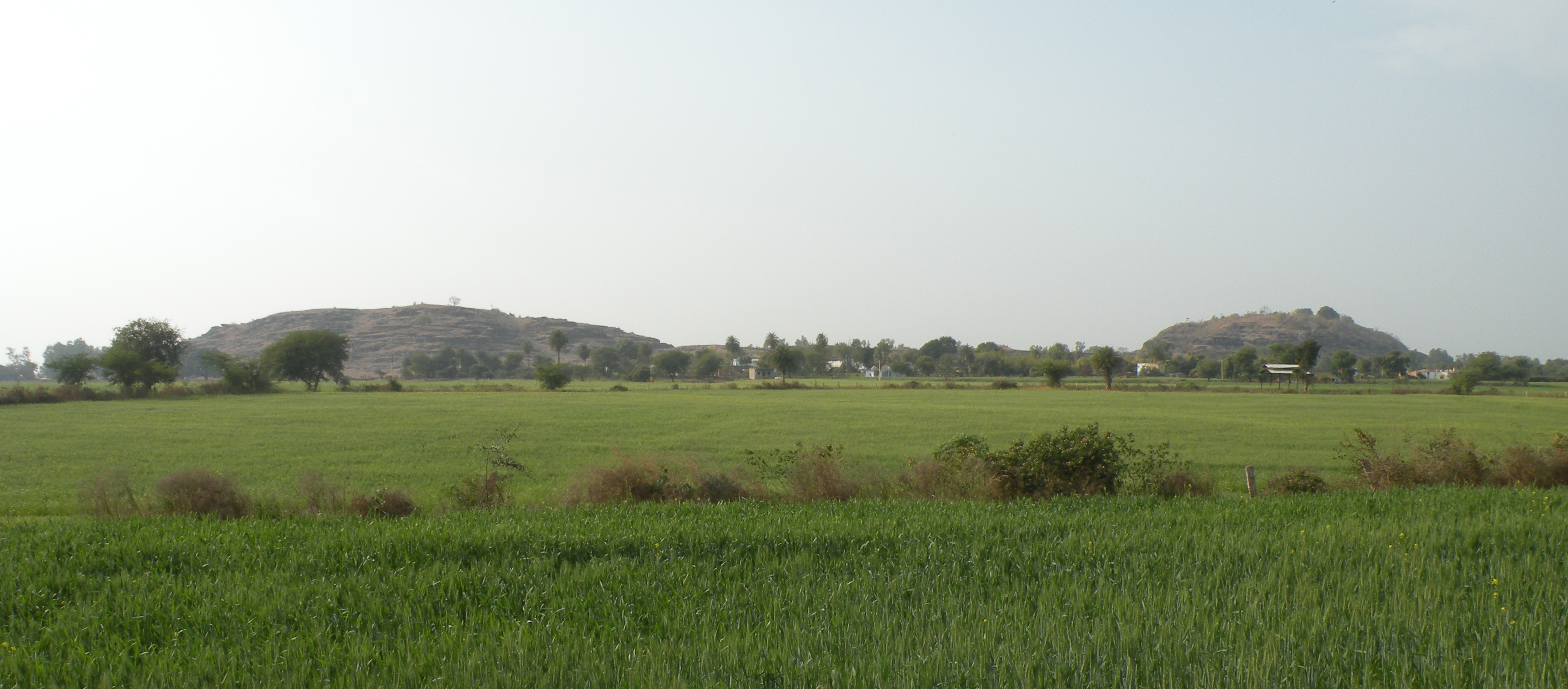 Udayagiri hills from the east